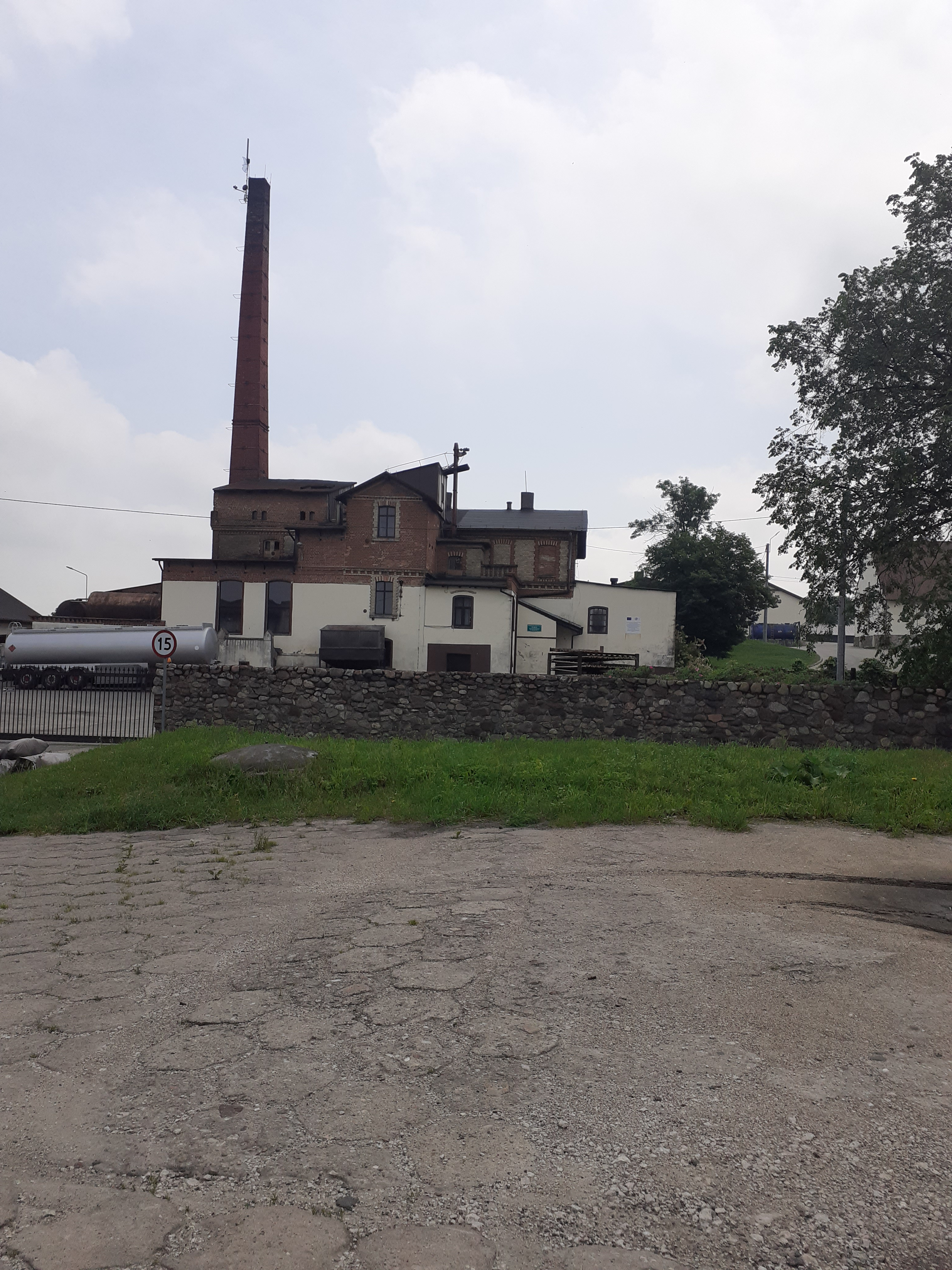 Wabcz zabytki